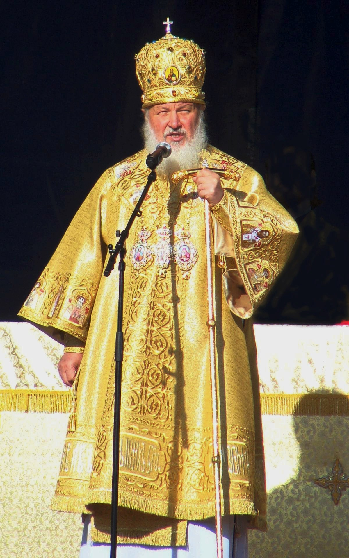 Patriarch Kirill I, or Cyril I (Russian: Кирилл, Патриарх Московский и всея Руси), (secular name Vladimir Mikhailovich Gundyayev (Russian: Владимир Михайлович Гундяев); born November 20, 1946) is a Russian Orthodox bishop who has been Patriarch of Moscow and All Rus and Primate of the Russian Orthodox Church since February 1, 2009.